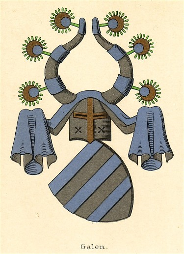 Coat of arms of the Galen family